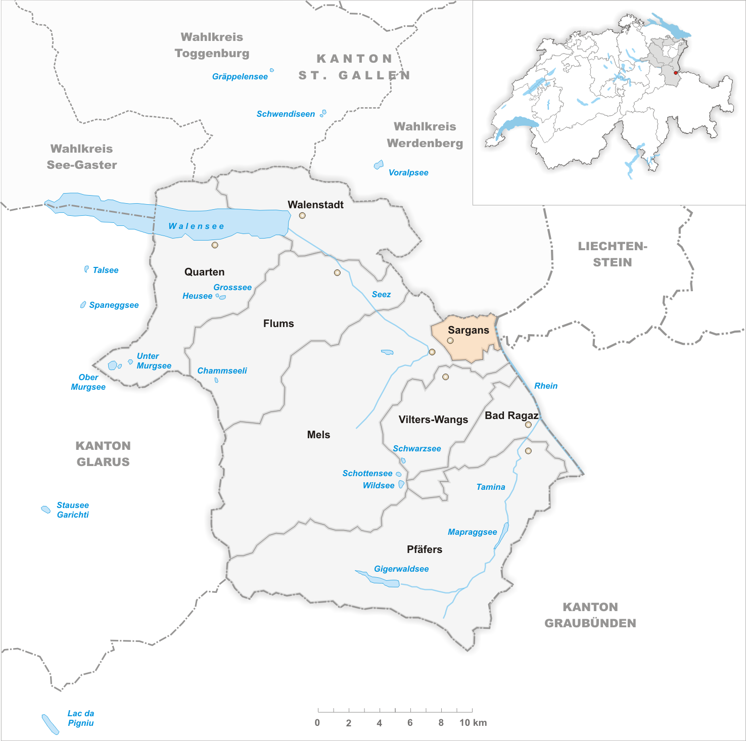 Municipality Sargans